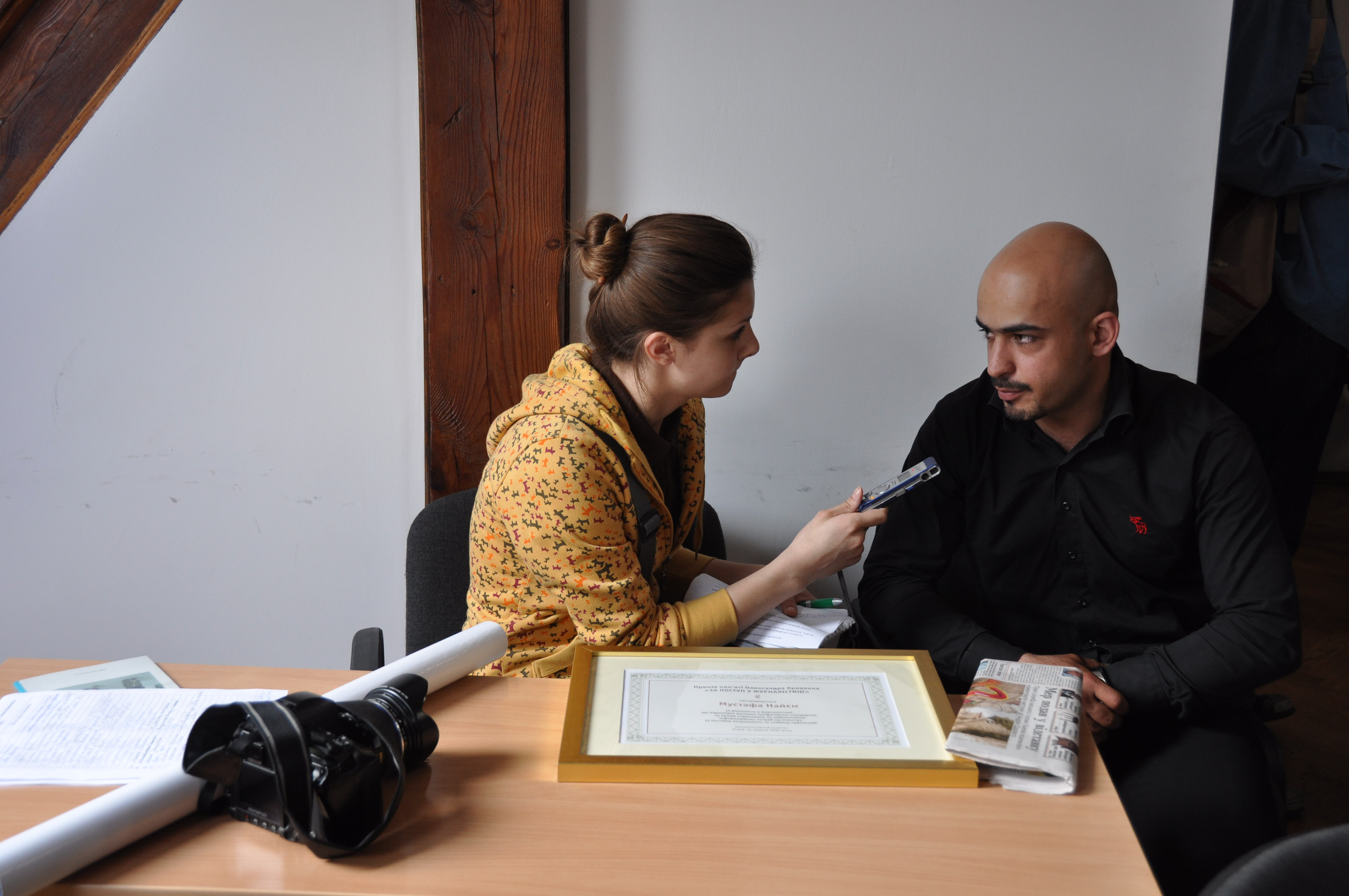 Mustafa Nayyem giving interview after receiving the Oleksandr Kryvenko Award